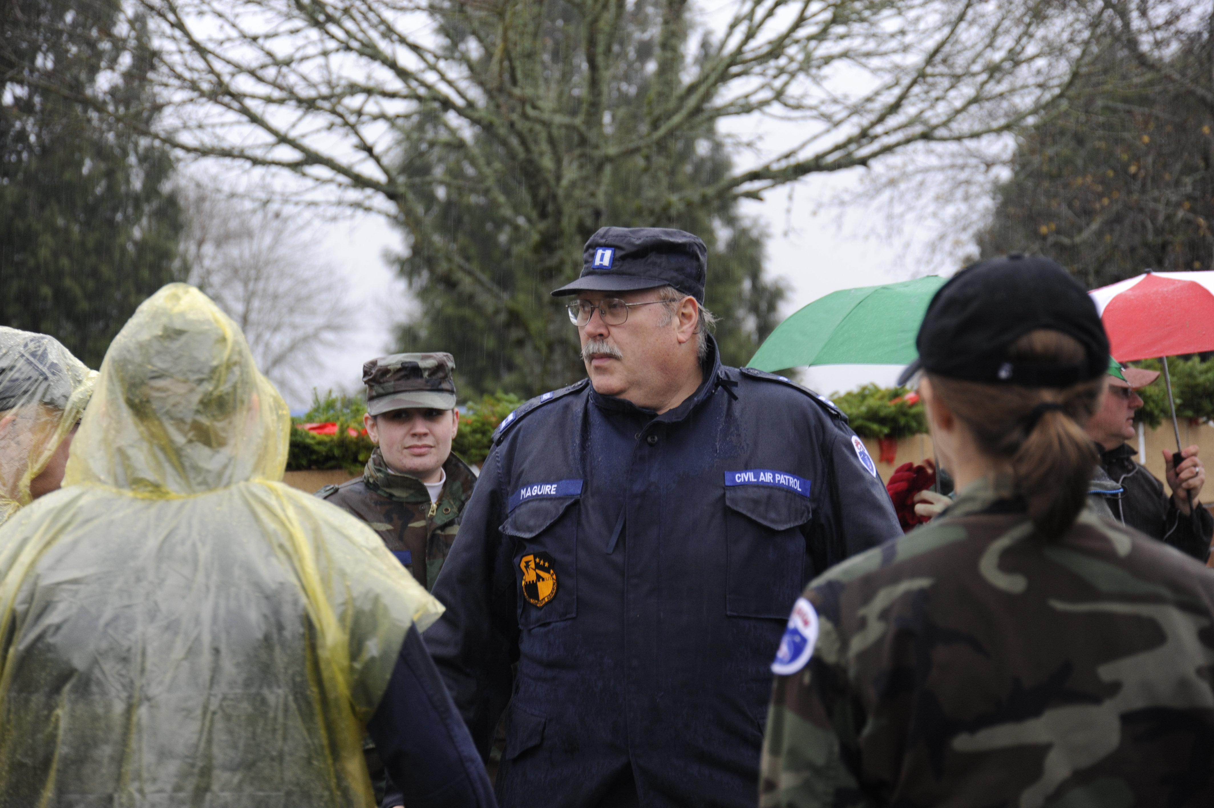 Members of the Civil Air Patrol receive a briefing prior to placing wreaths on graves in the Willamette National Cemetery, Portland, Ore., on December 11, 2010, during Wreaths Across America. ( Air Force Photo by Staff Sgt. Amber Ketchum, 142nd Public Affairs)